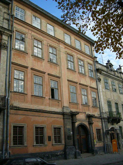 The modern view of library